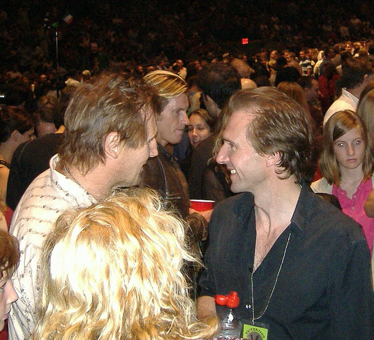 Liam Neeson talking to Ralph Fiennes in the VIP section at the Madison Square Garden U2 concert